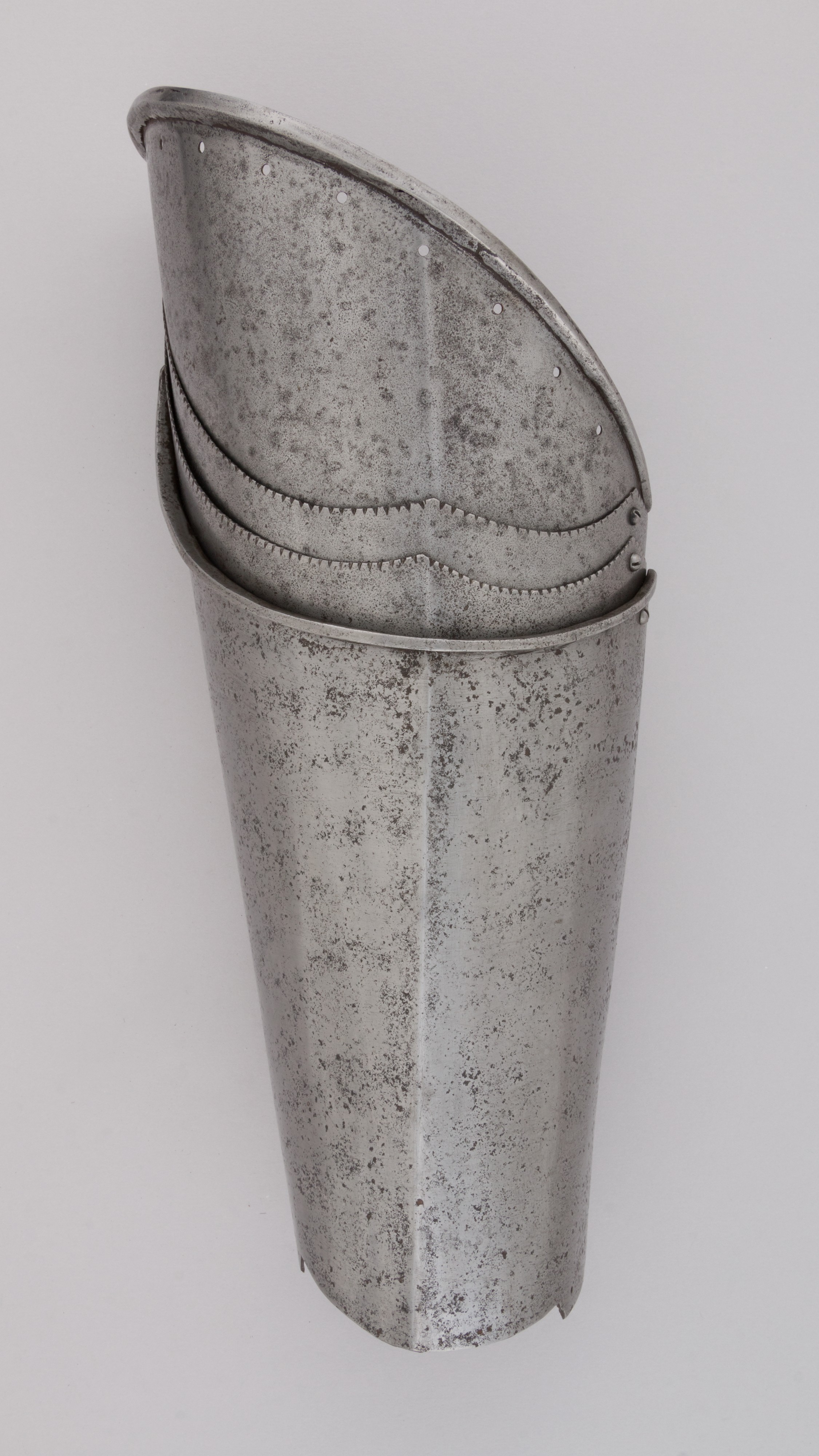 Italian; Pair of thigh defenses (Cuisses); Armor Parts-Knee Defenses